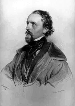 Litography of Austrian playwright Friedrich Kaiser